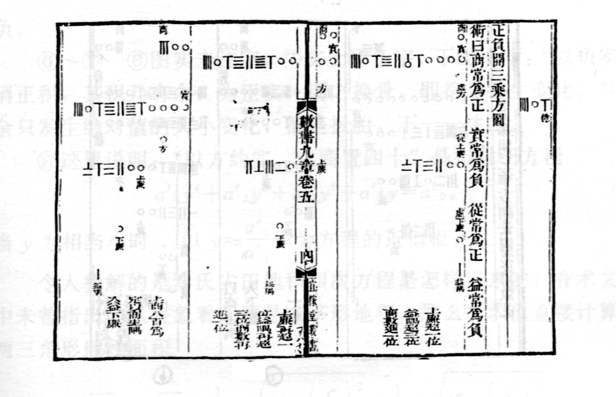 Third order equation 宜稼堂 《数书九章》正负开赛乘方图